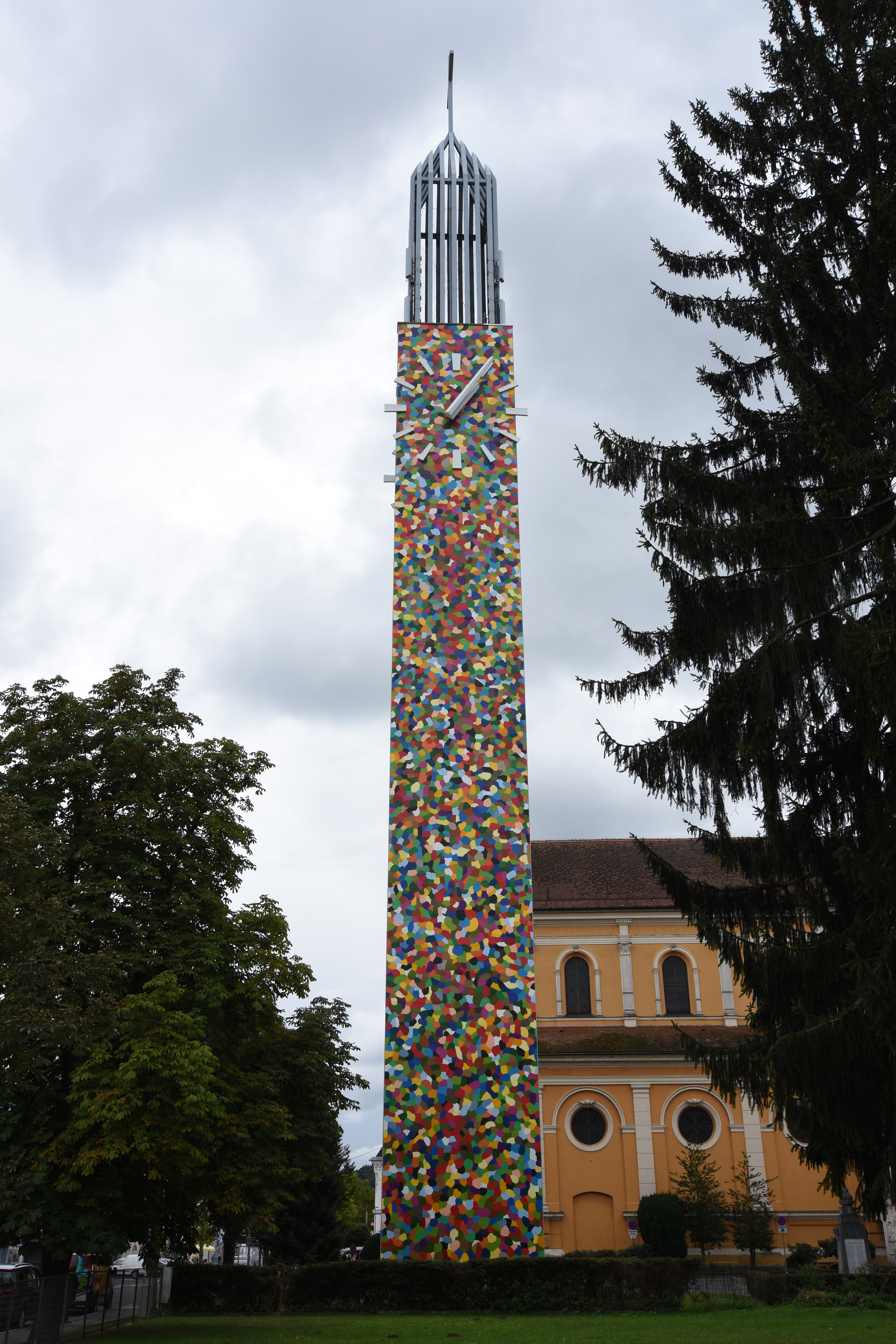 Leonhardskirche (Feldbach) Tower